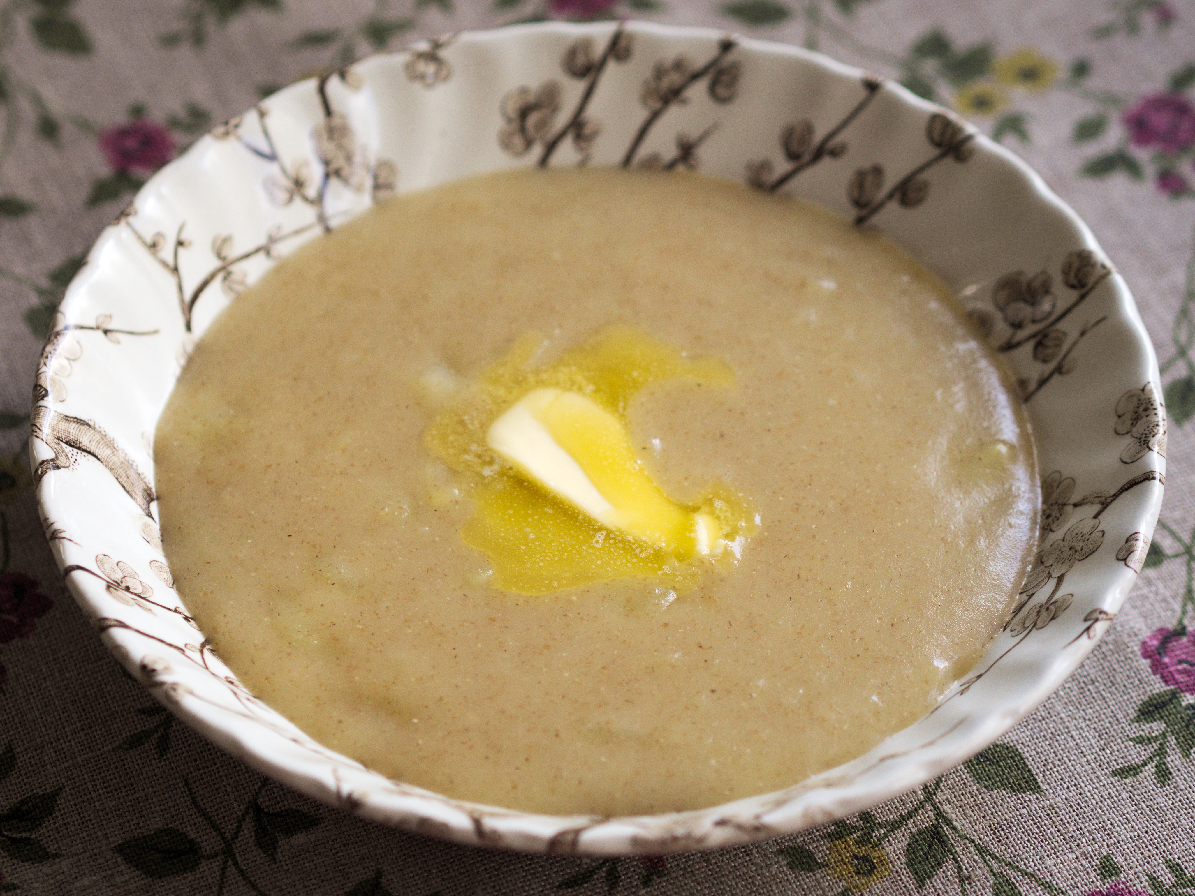 Hapanlohko with a pat of butter